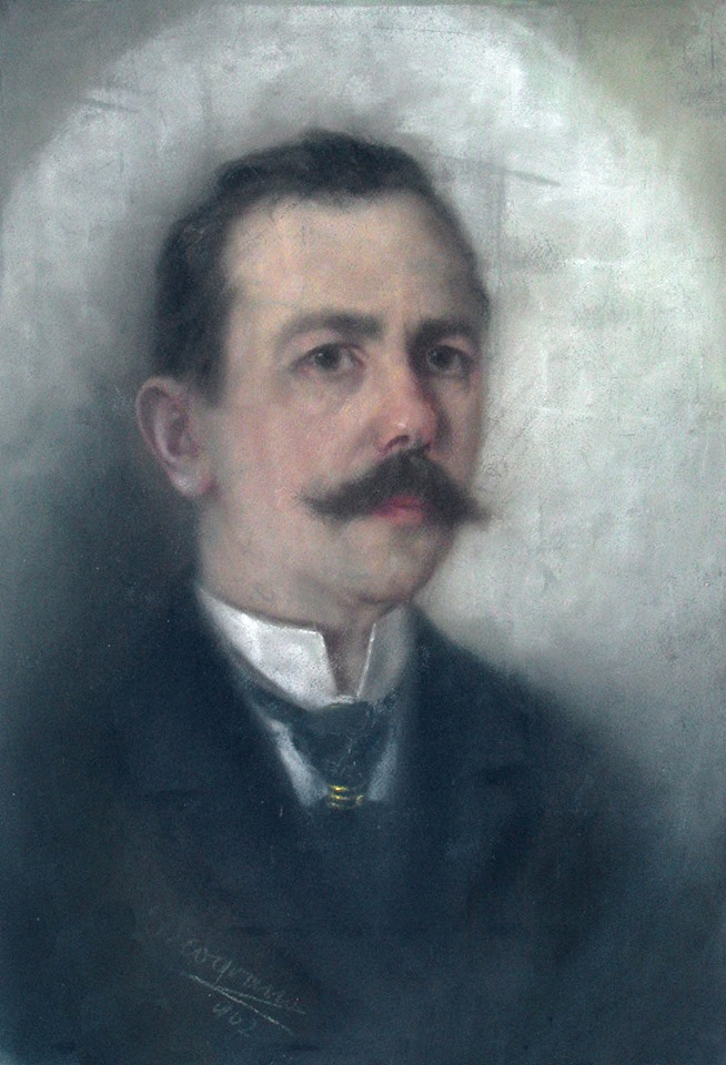 Costa Scodreanu Self-portrait, National Gallery of Macedonia